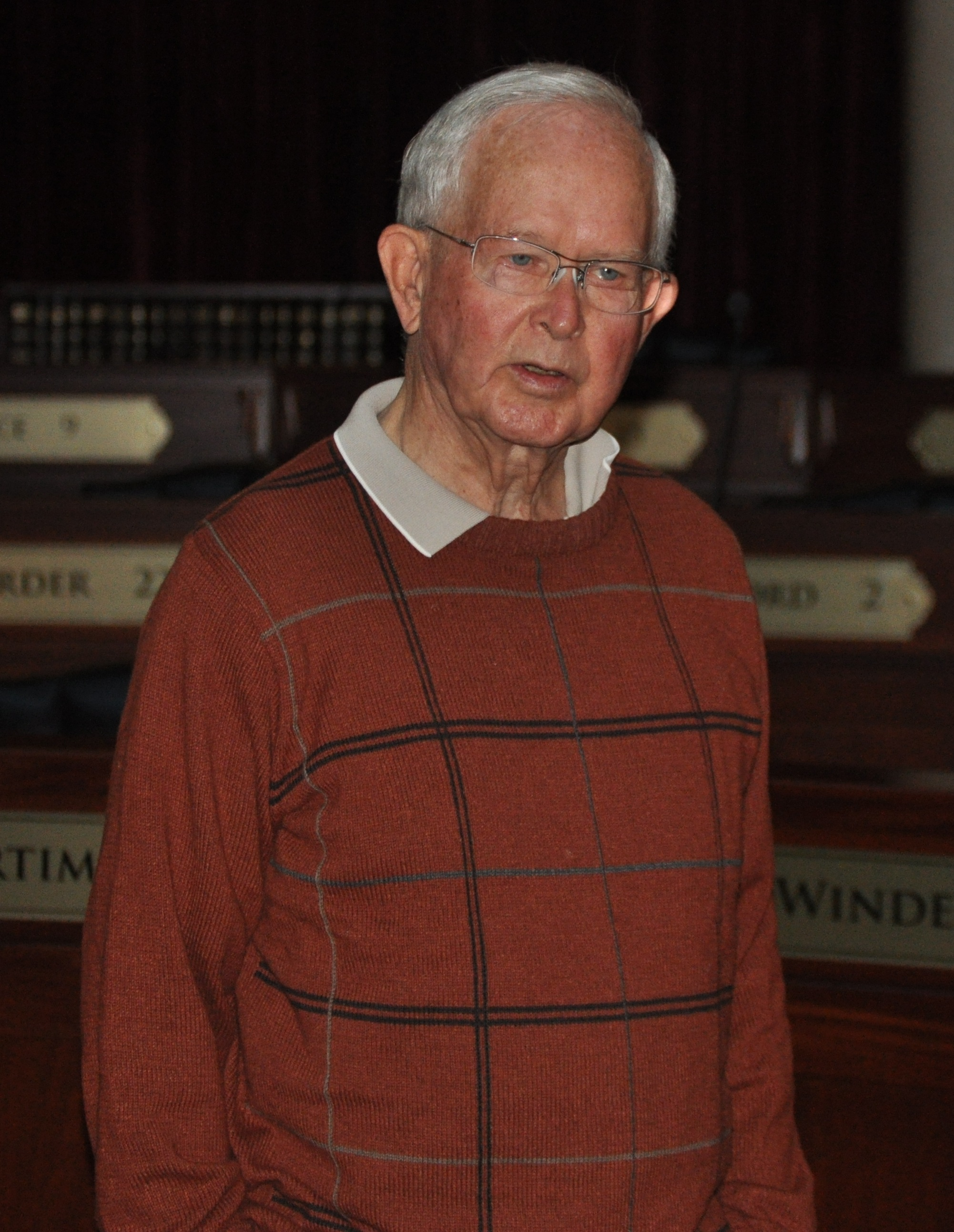 Former Idaho Governor Phil Batt at the Idaho House of Representatives in 2010.